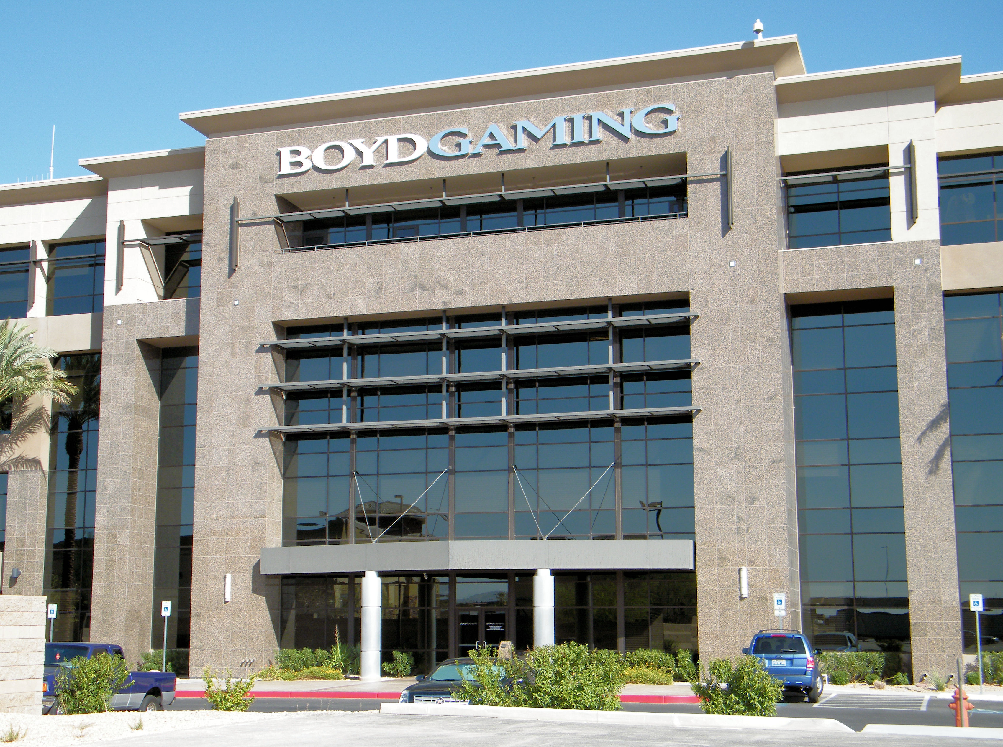 Boyd Gaming headquarters in Spring Valley, an unincorporated area of Clark County, just outside of Las Vegas.